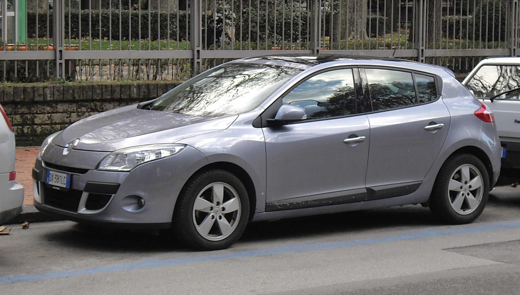 Renault Megane III